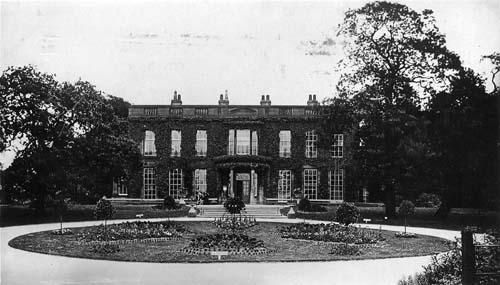 c1909. View of the Mansion at Potternewton Park from a postcard with a postmark of October 1909.